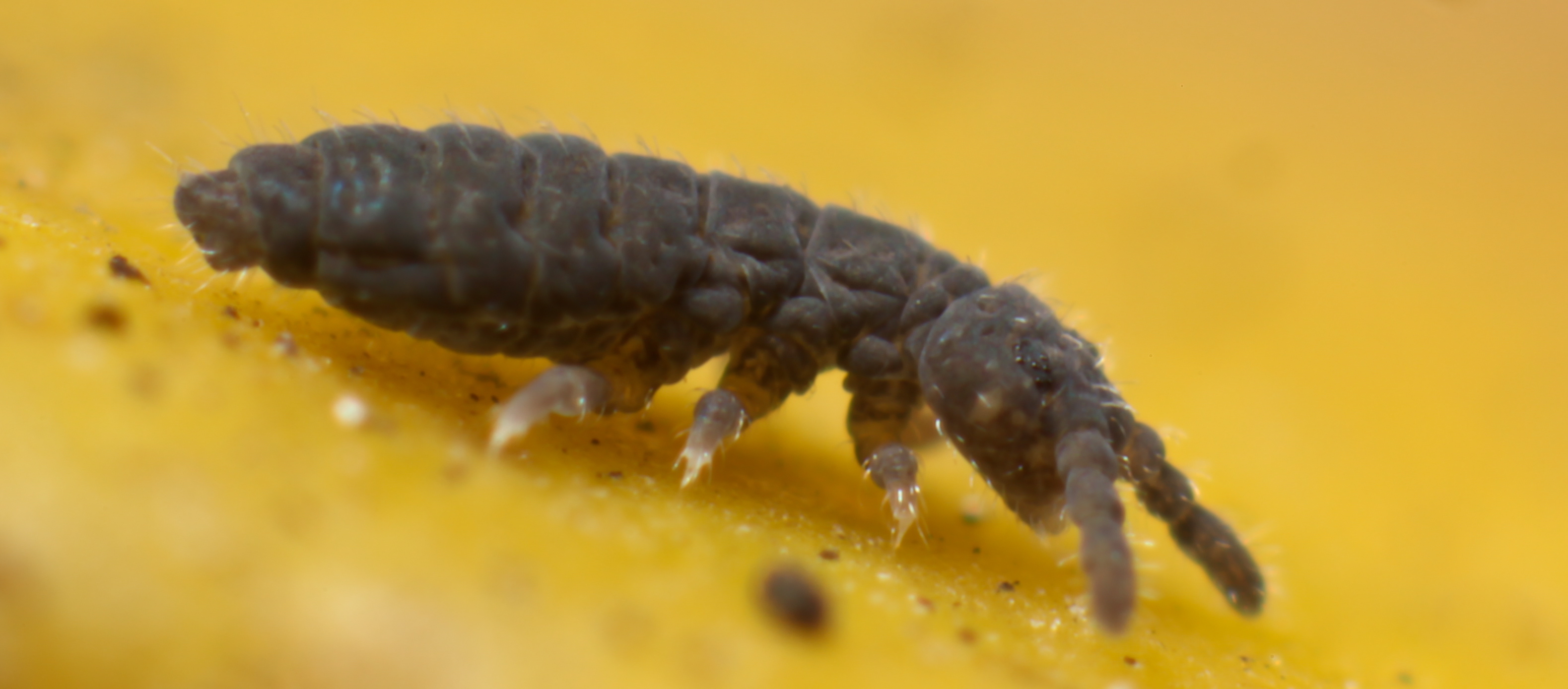 Hypogastrura viatica from the UK.